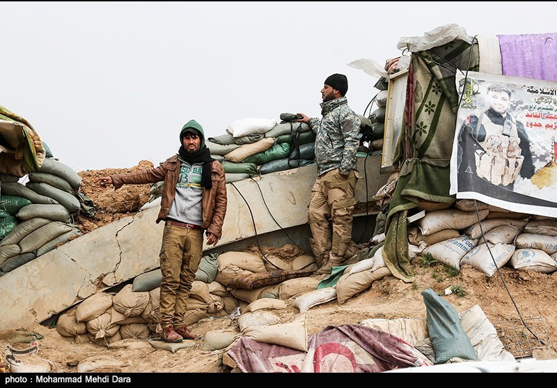 Popular Mobilization Forces in Tal Afar